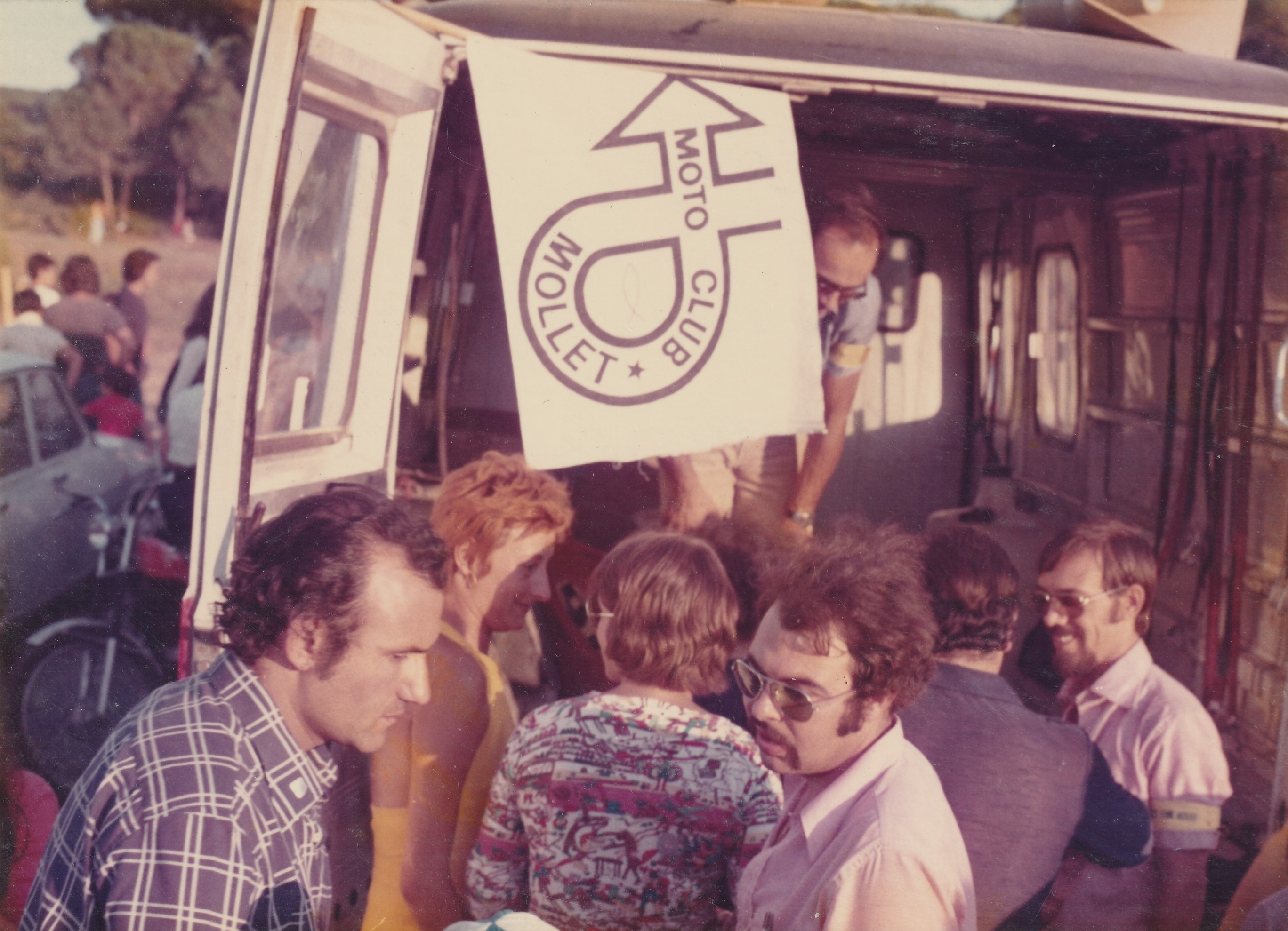 Josep Isern (left, in a plaid shirt) and his collaborators of the Moto Club Mollet in La Roca del Vallès in 1974